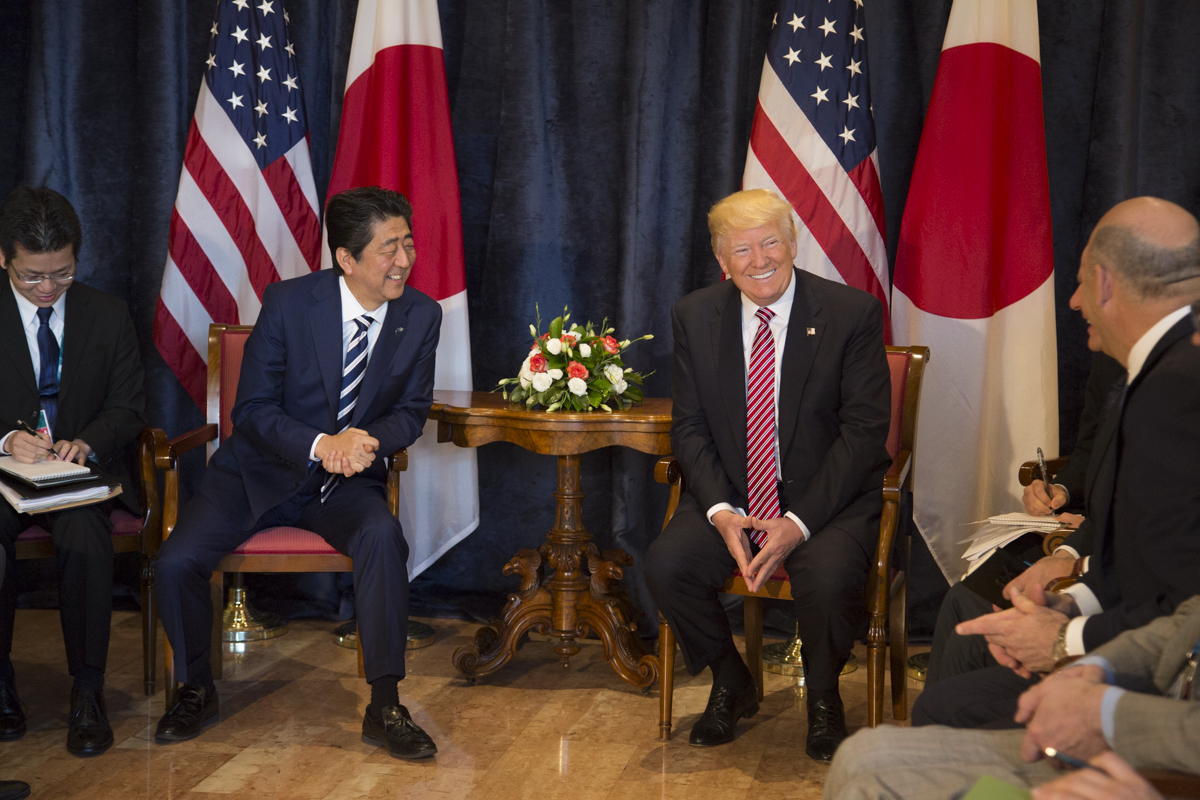 President Donald Trump and Prime Minister Shinzō Abe of Japan share a laugh with members of the U.S. delegation, as they meet for their bilateral meeting, Friday, May 26, 2017, at the Hotel Villa Diodoro in Taormina, Italy. (Official White House Photo by Shealah Craighead)